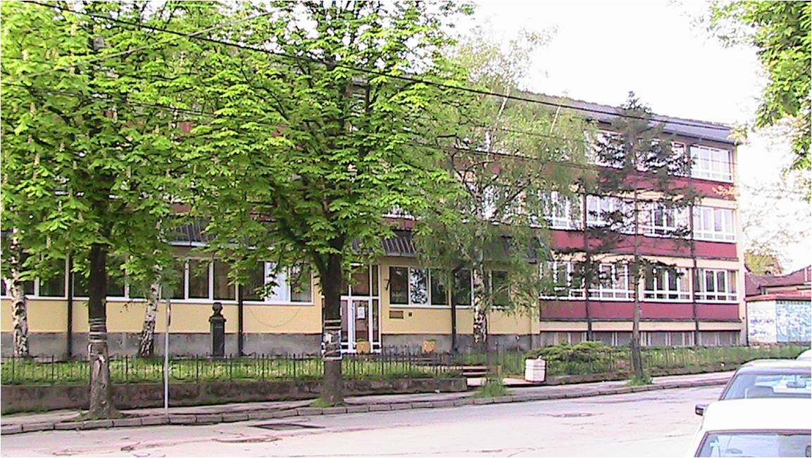 Primary school, Krusevac, Serbia Srpski (latinica): Osnovna škola "Vuk Karadžić" u Kruševcu, Srbija